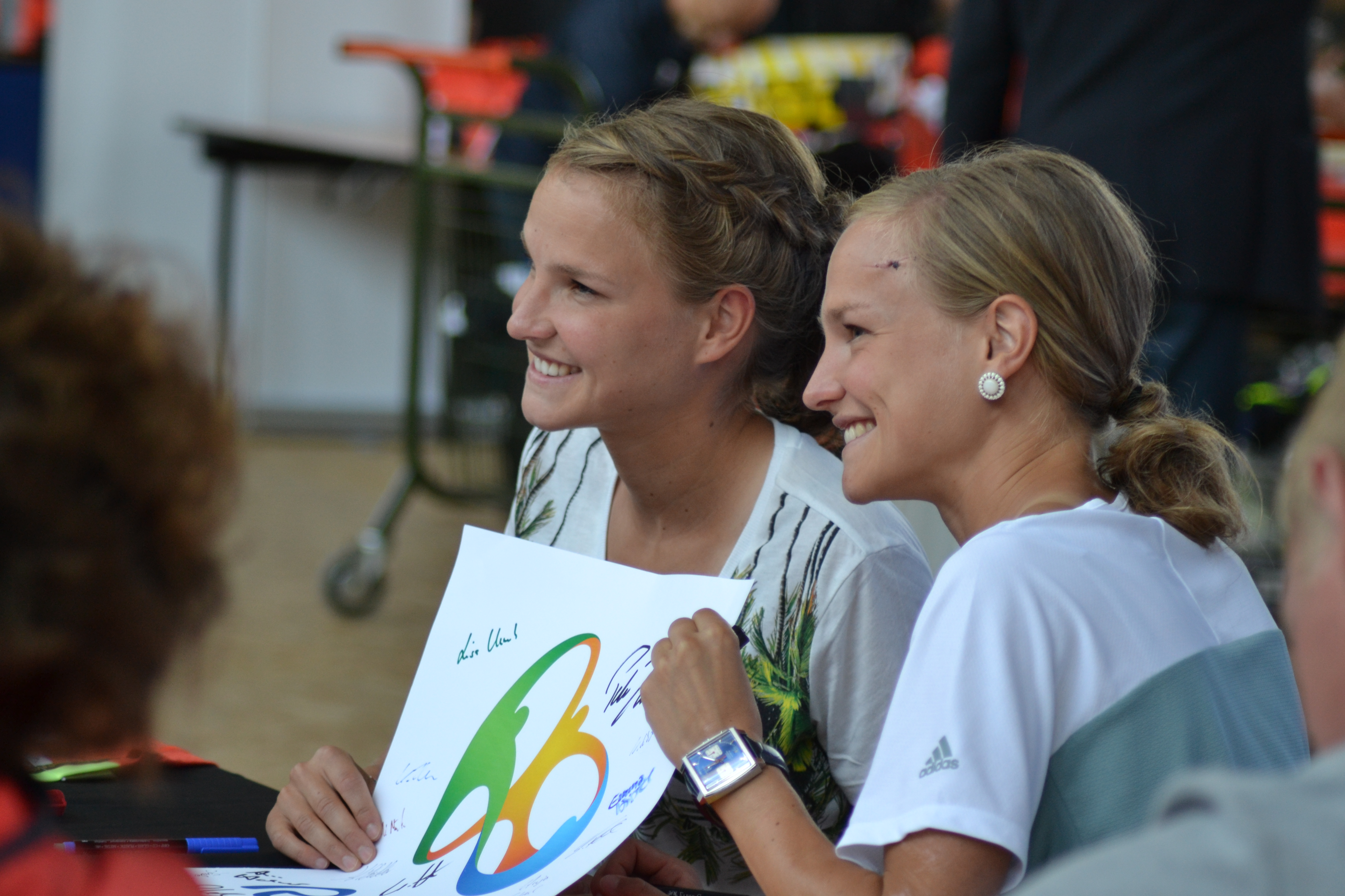 Media day of the clothing of the German Olympic team for Rio 2016 in the Emmich-Cambrai-Kaserne in Hanover. Pictured persons see Categories.